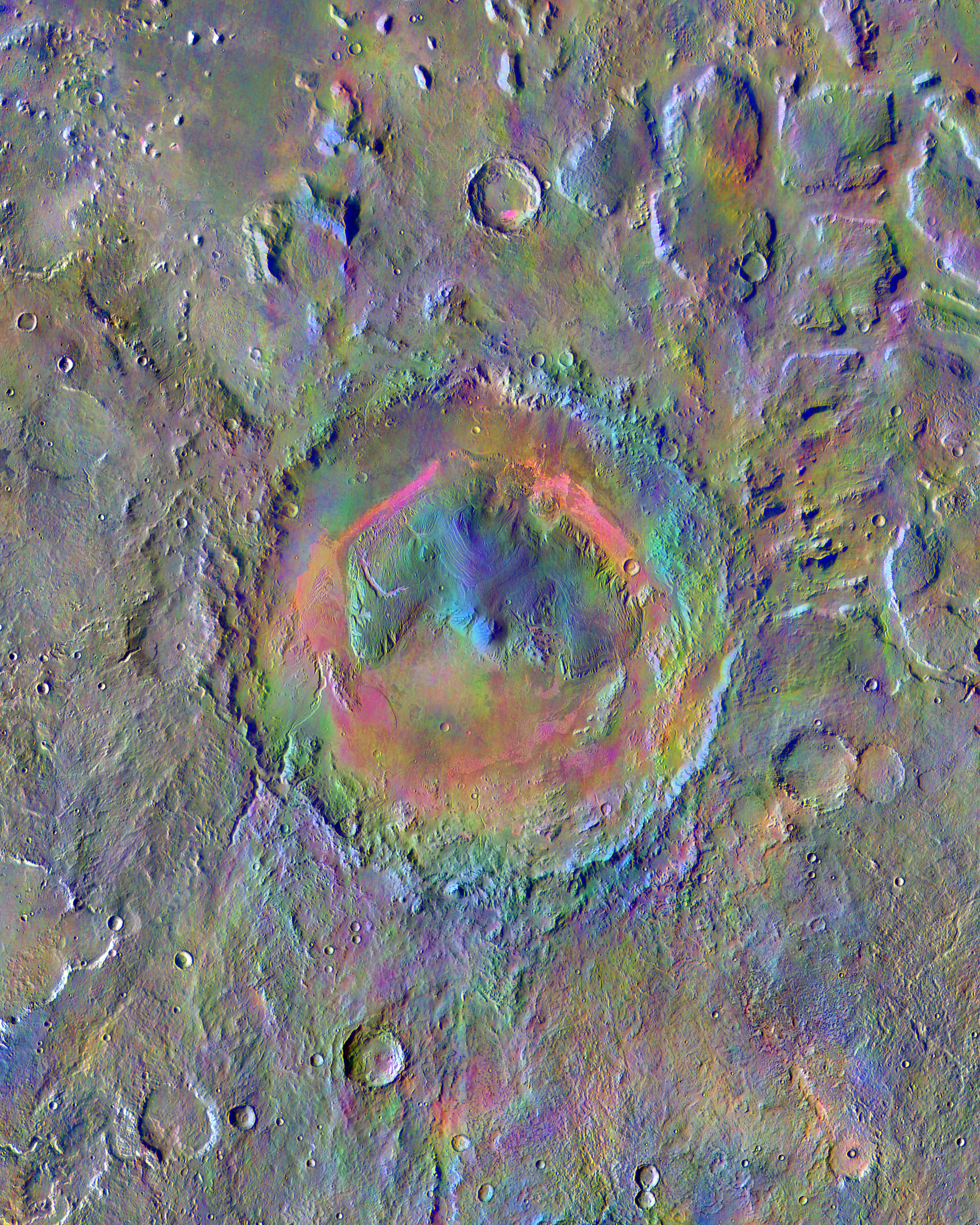 PIA19674: Gale Crater's Surface Materials Gale Crater, home to NASA's Curiosity Mars rover, shows a new face in this mosaic image made using data from the Thermal Emission Imaging System (THEMIS) on NASA's Mars Odyssey orbiter. The colors come from an image processing technique that identifies mineral differences in surface materials and displays them in false colors. For example, windblown dust appears pale pink and olivine-rich basalt looks purple. The bright pink on Gale's floor appears due to a mix of basaltic sand and windblown dust. The blue at the summit of Gale's central mound, Mount Sharp, probably comes from local materials exposed there. The typical average Martian surface soil looks grayish-green. Scientists use false-color images such as these to identify places of potential geologic interest. The diameter of the crater is 96 miles (154 kilometers). North is up. THEMIS and other instruments on Mars Odyssey have been studying Mars from orbit since 2001. Curiosity landed in the northeastern portion of Gale Crater in 2012 and climbed onto the flank of Mount Sharp in 2014. Please see the THEMIS Data Citation Note for details on crediting THEMIS images - NASA's Jet Propulsion Laboratory manages the 2001 Mars Odyssey mission for NASA's Science Mission Directorate, Washington, D.C. The Thermal Emission Imaging System (THEMIS) was developed by Arizona State University, Tempe, in collaboration with Raytheon Santa Barbara Remote Sensing. The THEMIS investigation is led by Dr. Philip Christensen at Arizona State University. Lockheed Martin Astronautics, Denver, is the prime contractor for the Odyssey project, and developed and built the orbiter. Mission operations are conducted jointly from Lockheed Martin and from JPL, a division of the California Institute of Technology in Pasadena.